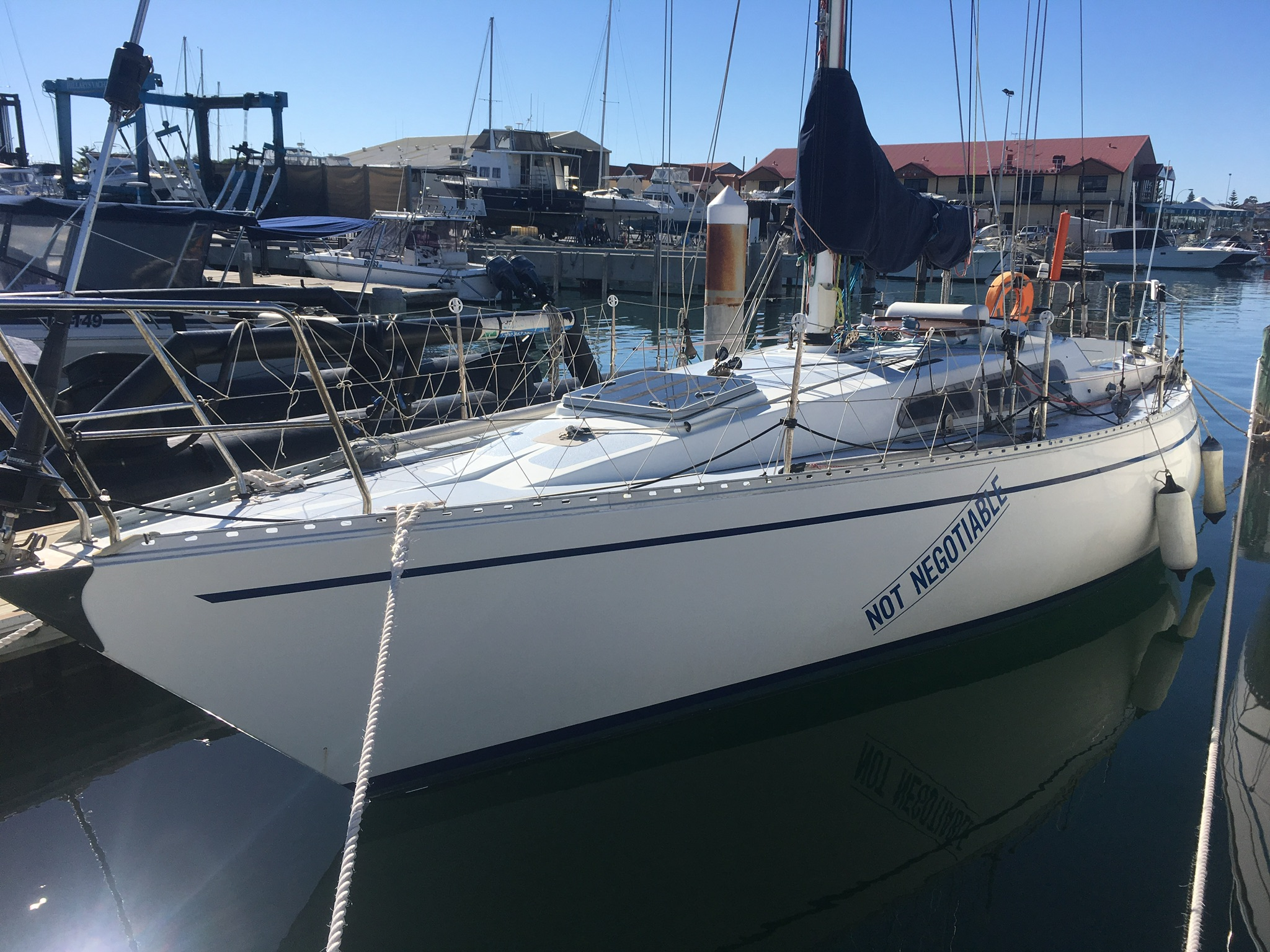 The yacht 'Not Negotiable' a UFO 34 that sucessfully competed in many ocean races in Australia, including several Sydney to Hobarts